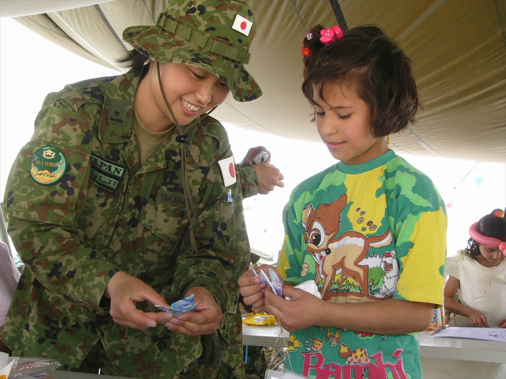 Title 16 子供に折り鶴を教える隊員_R.JPG Album 国際平和協力活動等（及び防衛協力等） イラク人道復興支援特措法に基づく活動